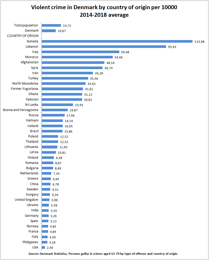 The chart shows the per capita number of migrants in Denmark who were found guilty in crime in 2018